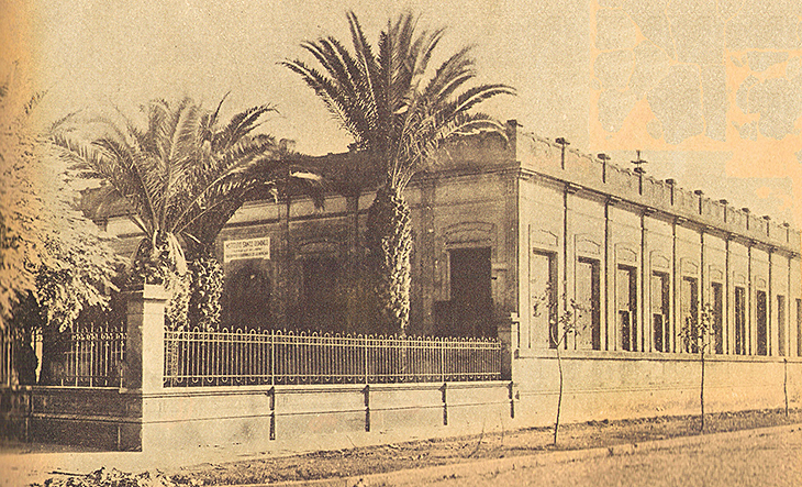 Santo Domingo school in the 1920s